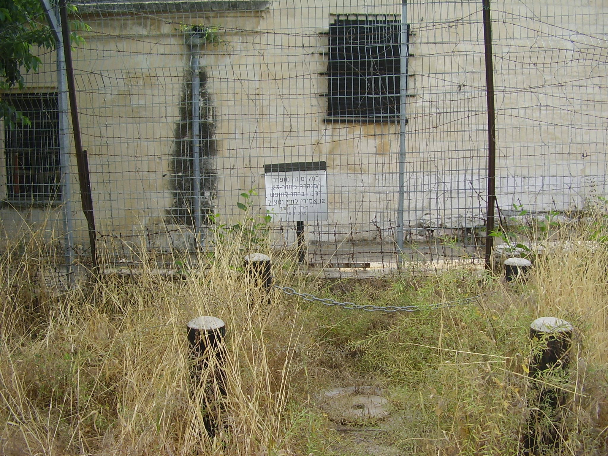 Place where Underground Prisoners escape from prison in Jerusalem